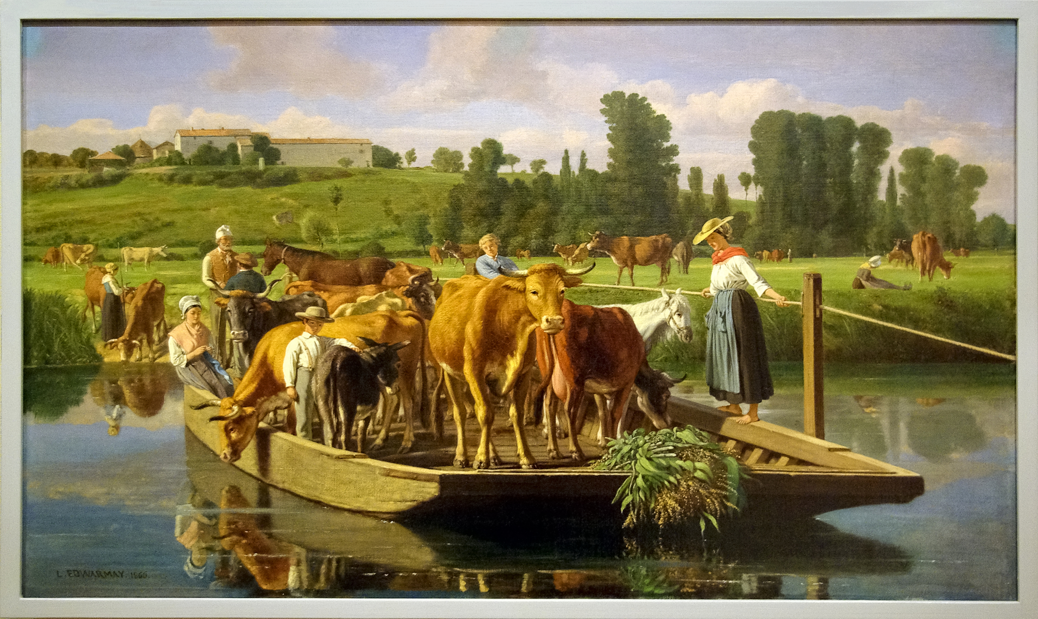 Ferry at Roffit